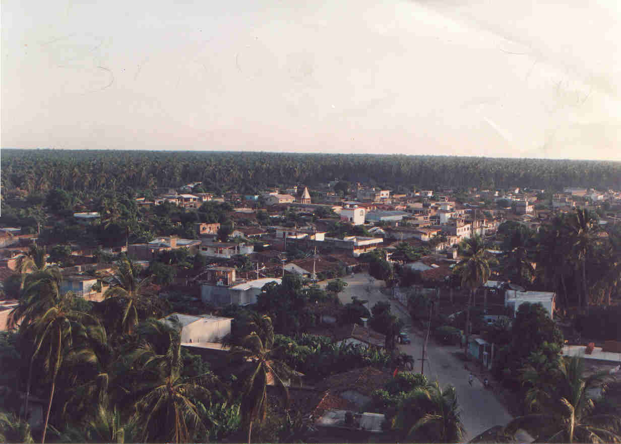 Tenexpa Guerrero Mexico